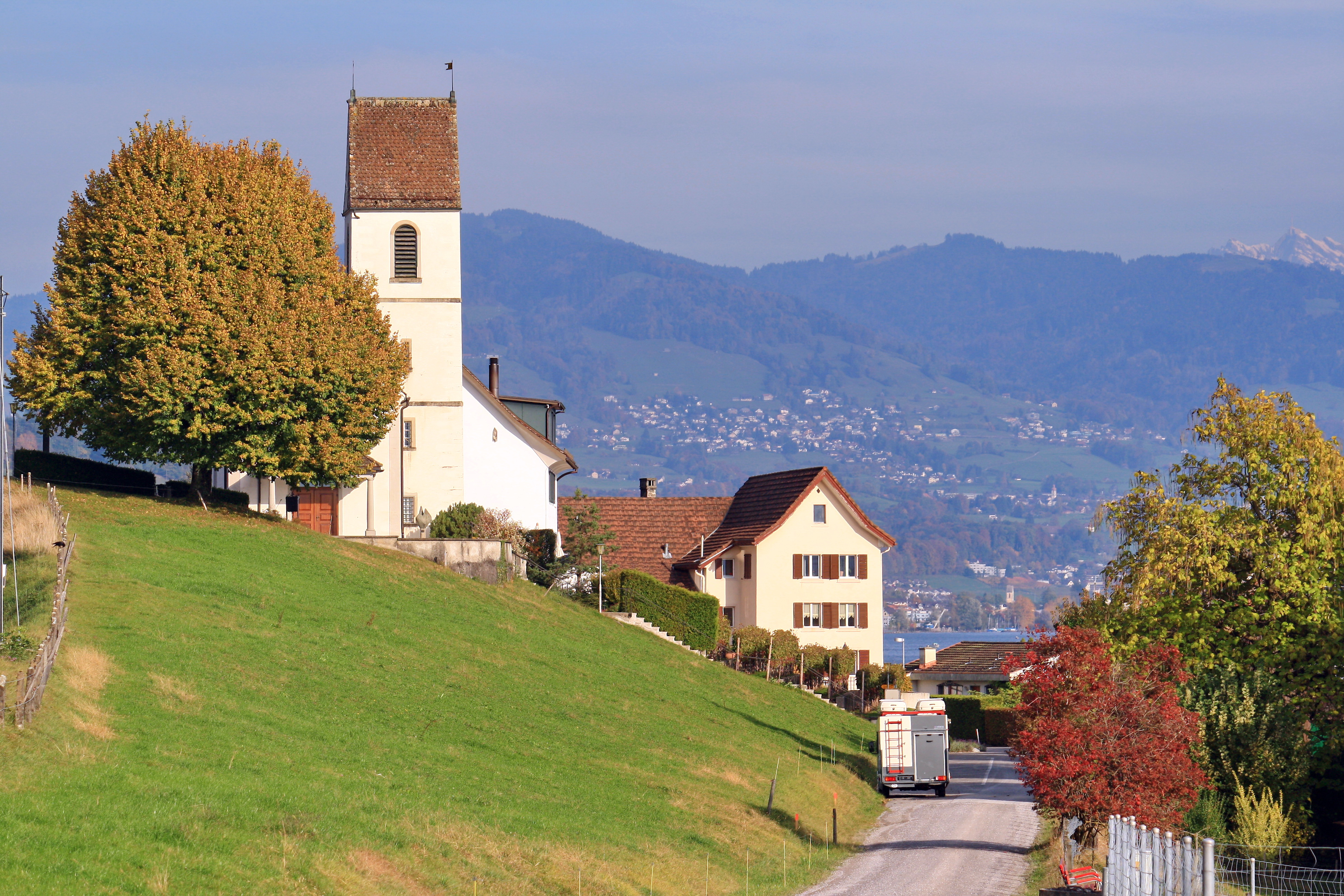 Strandweg in Bollingen on Obersee (upper Lake Zürich) shore, Schmerikon (to the left) and Uznach respectively Uznaberg in the far background.